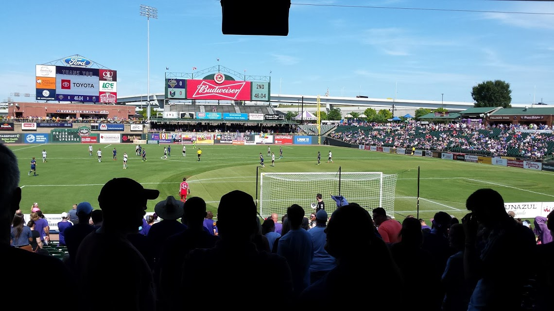 Louisville FC game vs NC FC on Aug 24, 2019